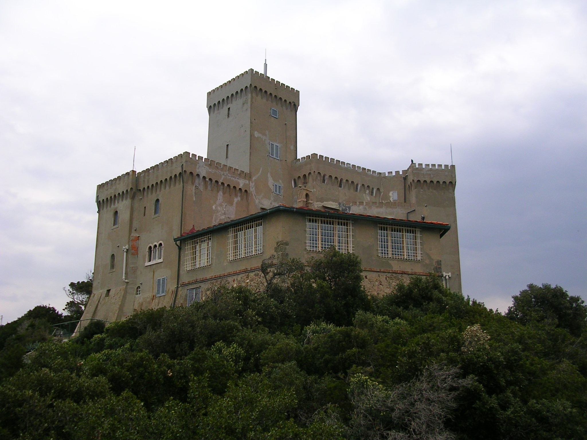 Castle of Baron Sidney Sonnino near Livorno, Italy.